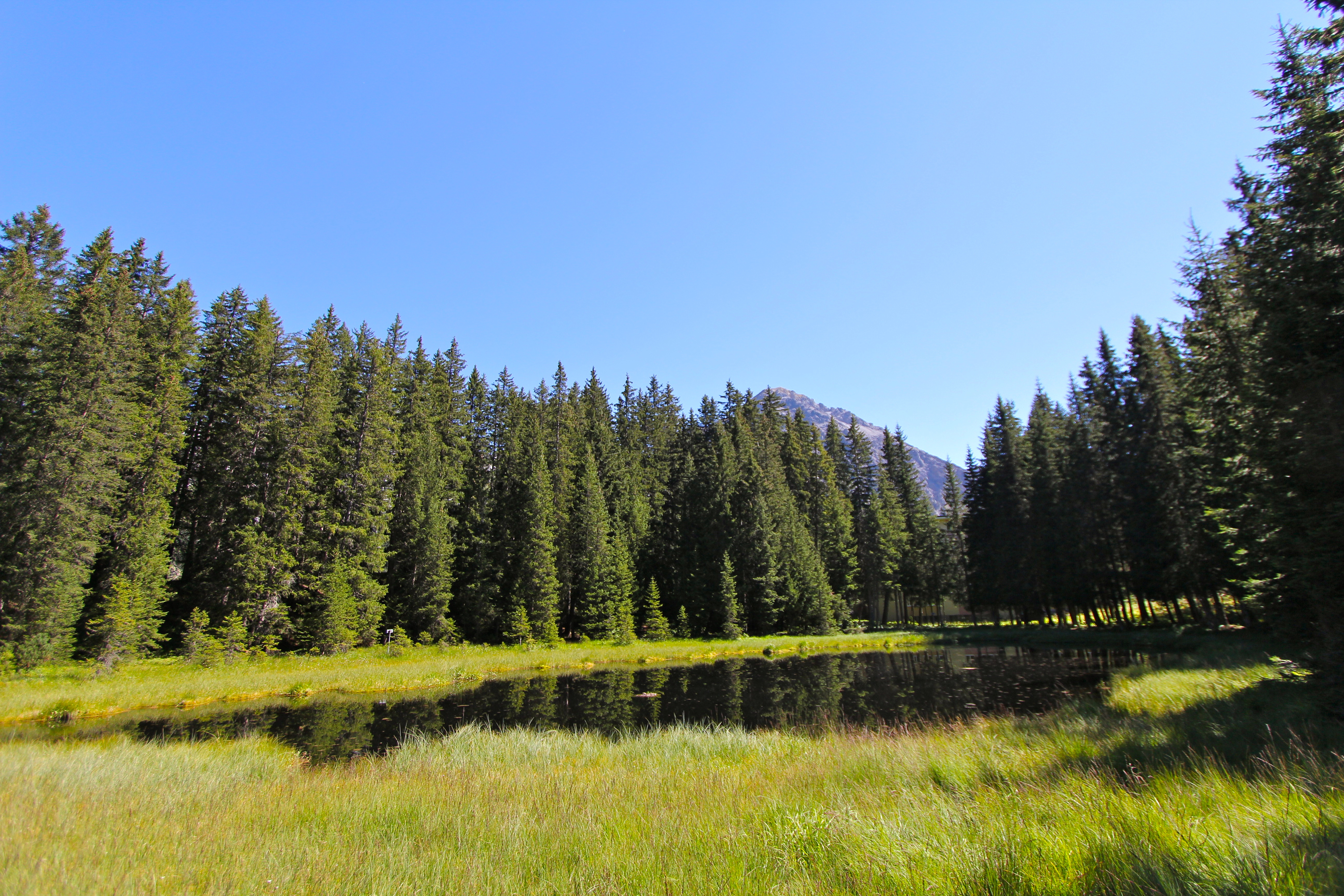 The moore Schwarzsee at Arosa/Switzerland.